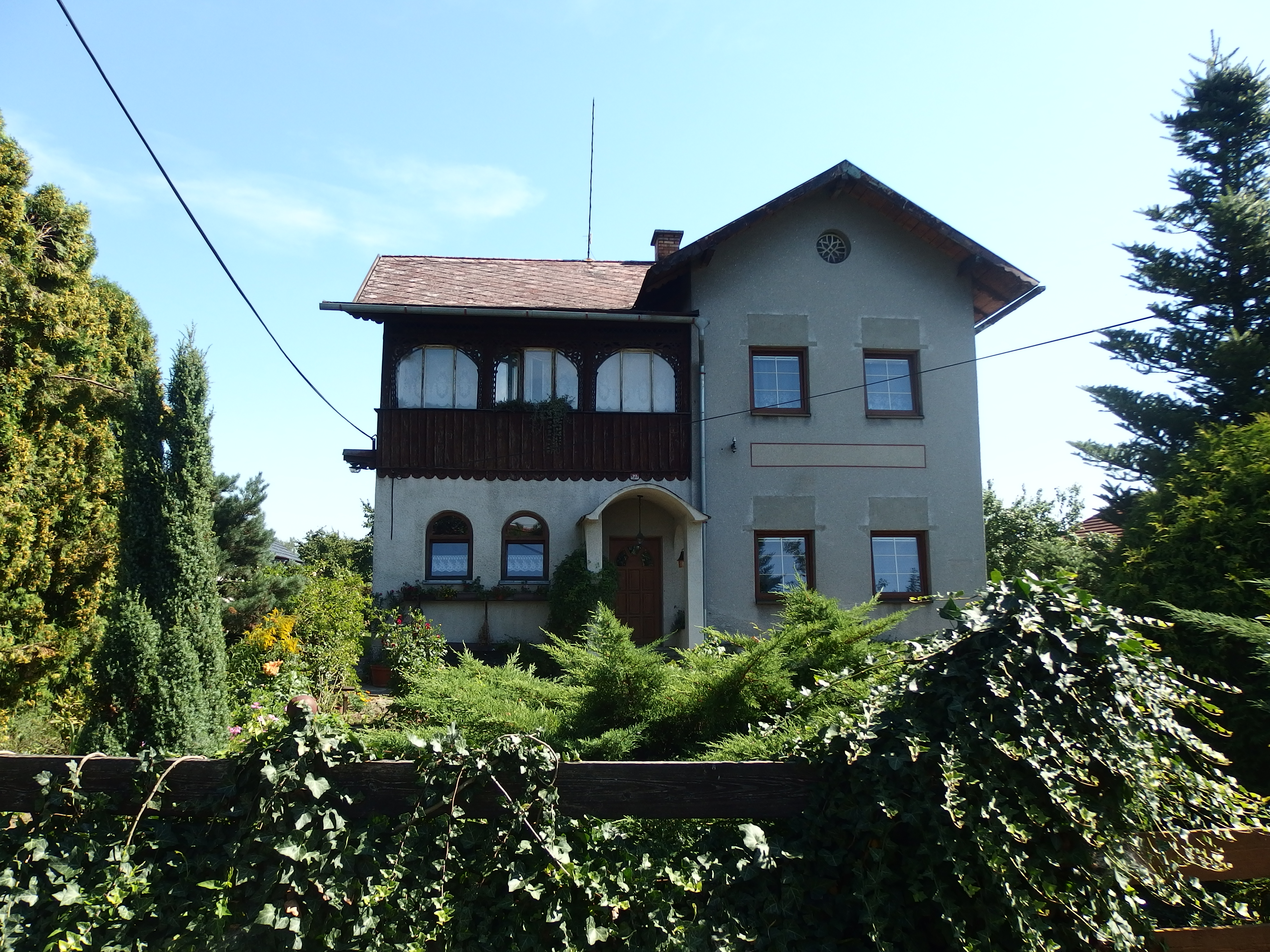 Jeseník nad Odrou, Nový Jičín District, Czech Republic, part Hrabětice.